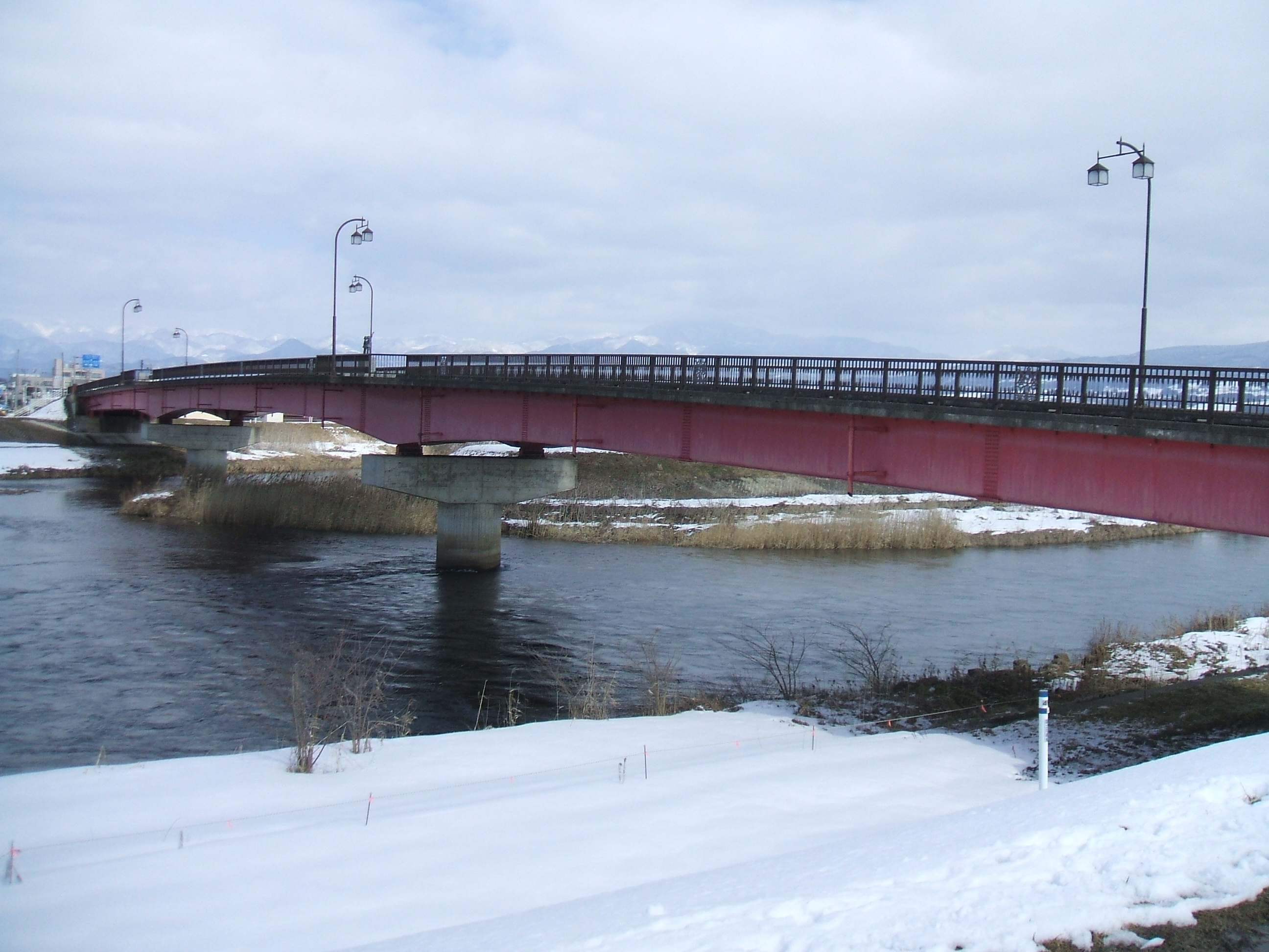 This is a landscape of Higashi-Ohashi Bridge. It was taken at Yugawa, Fukushima.